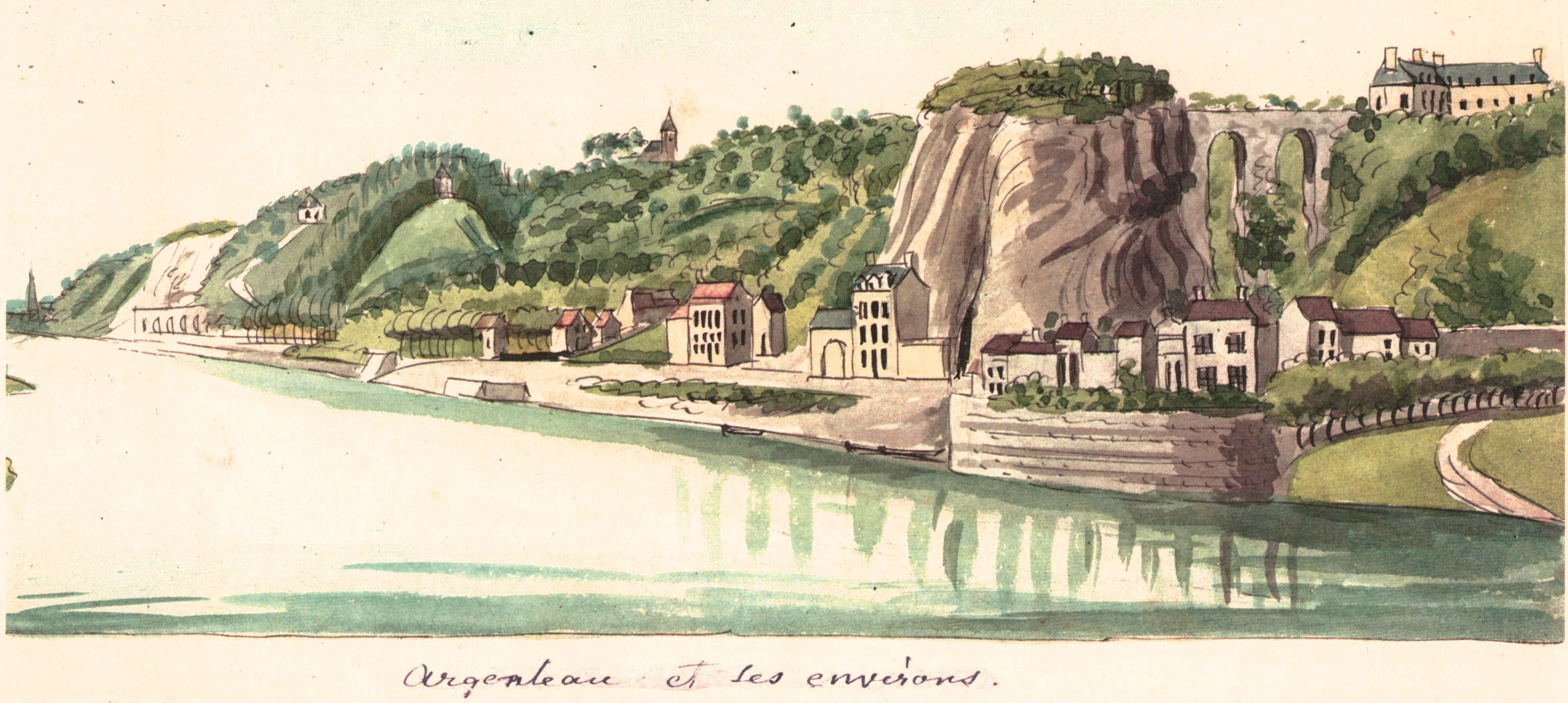 View of the river Meuse and the village of Argenteau, Visé, Belgium (near Maastricht, the Netherlands). Drawing by Philippus van Gulpen (c 1840-60)